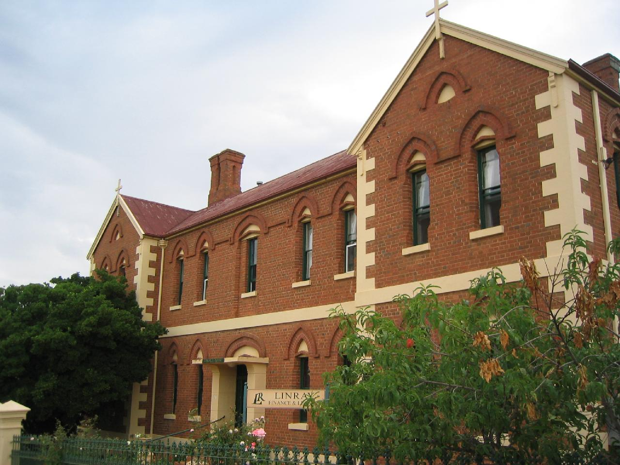 St Benedicts Queanbeyan a former monastery now renovated houses a number of local businesses